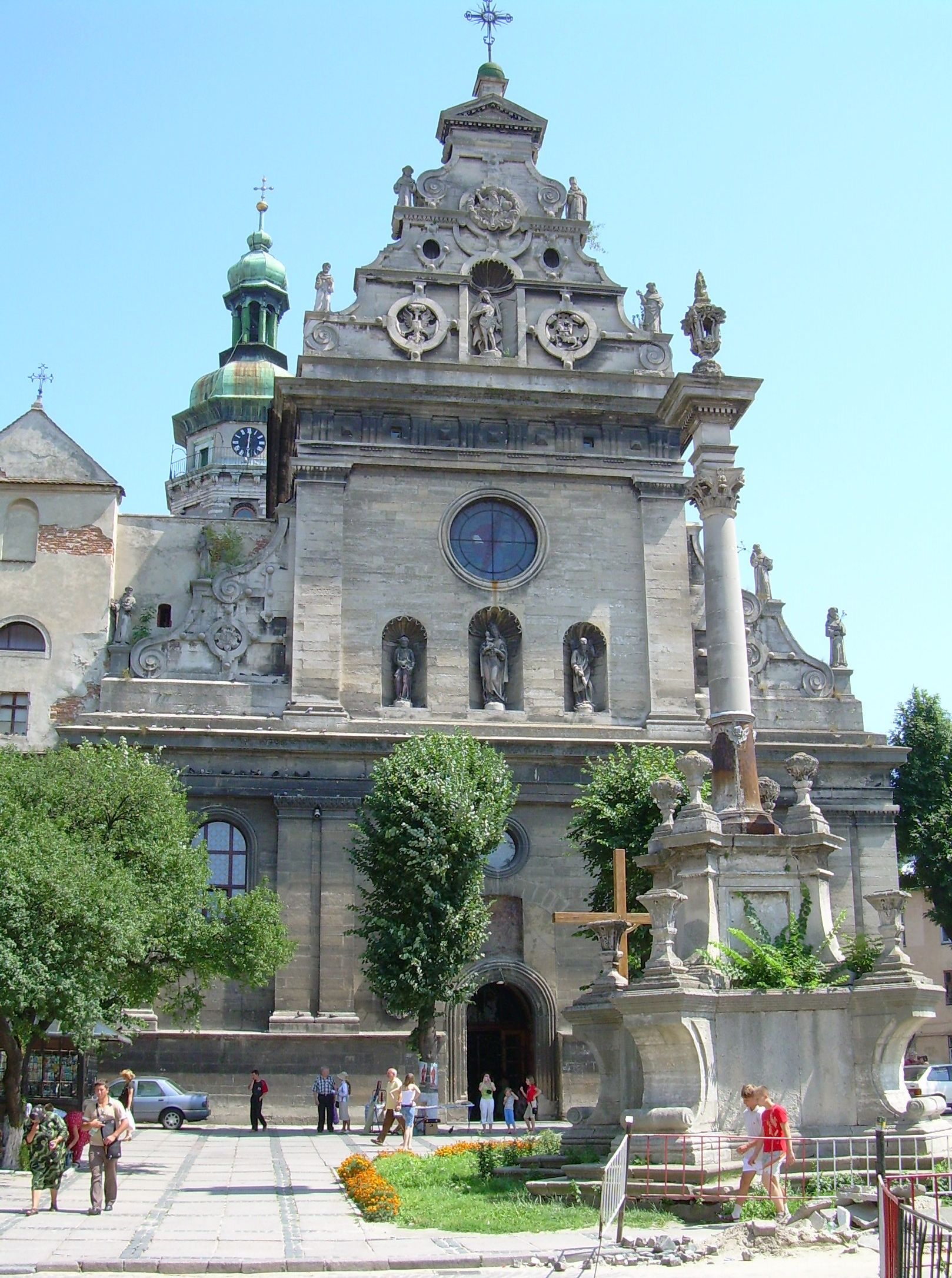 The church beside the monastery of bernardines in Lviv